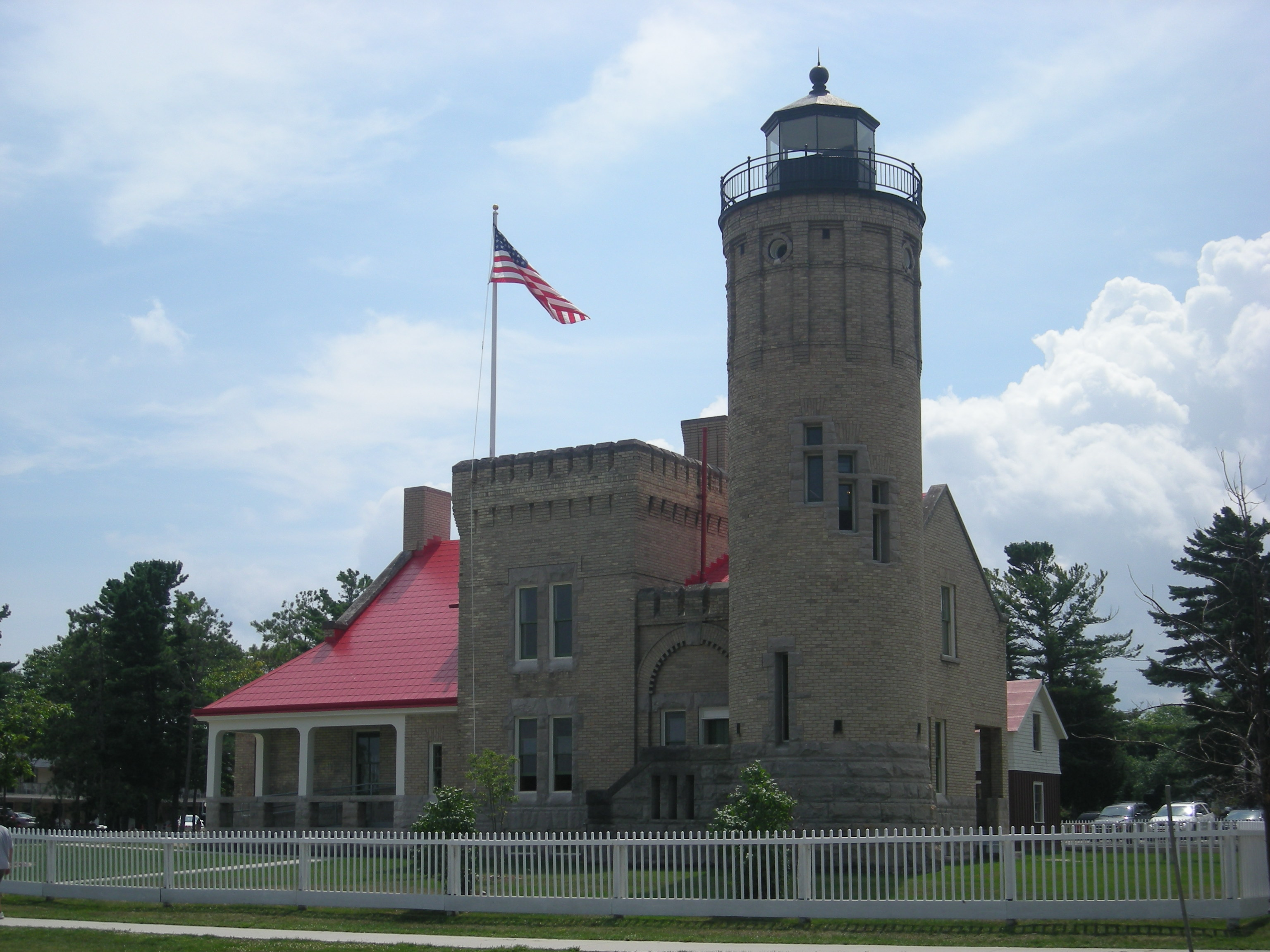 Old Mackinac Point Lighthouse in Mackinaw City, Michigan (United States).